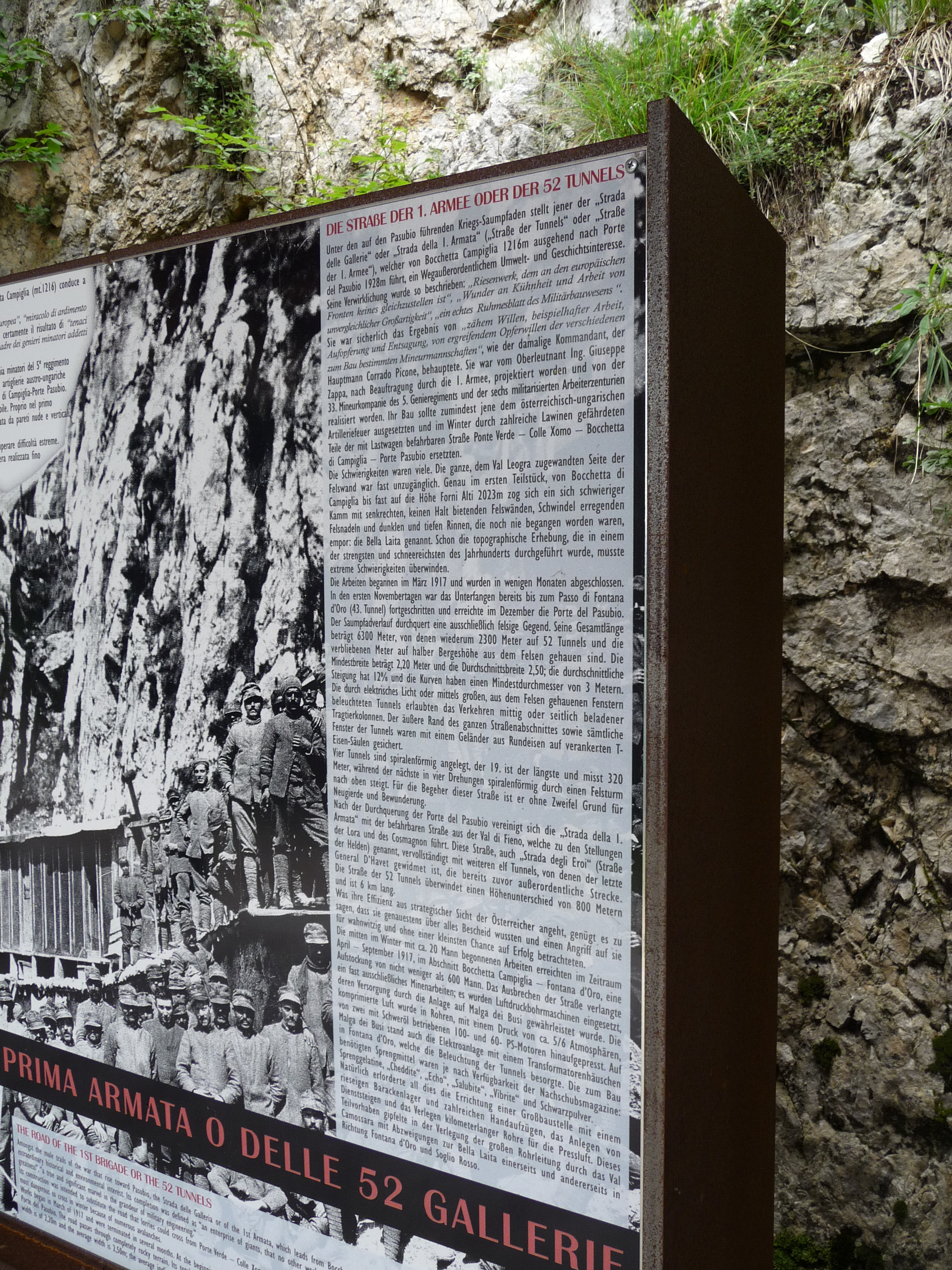 Information sign at Strada della 52 Gallerie